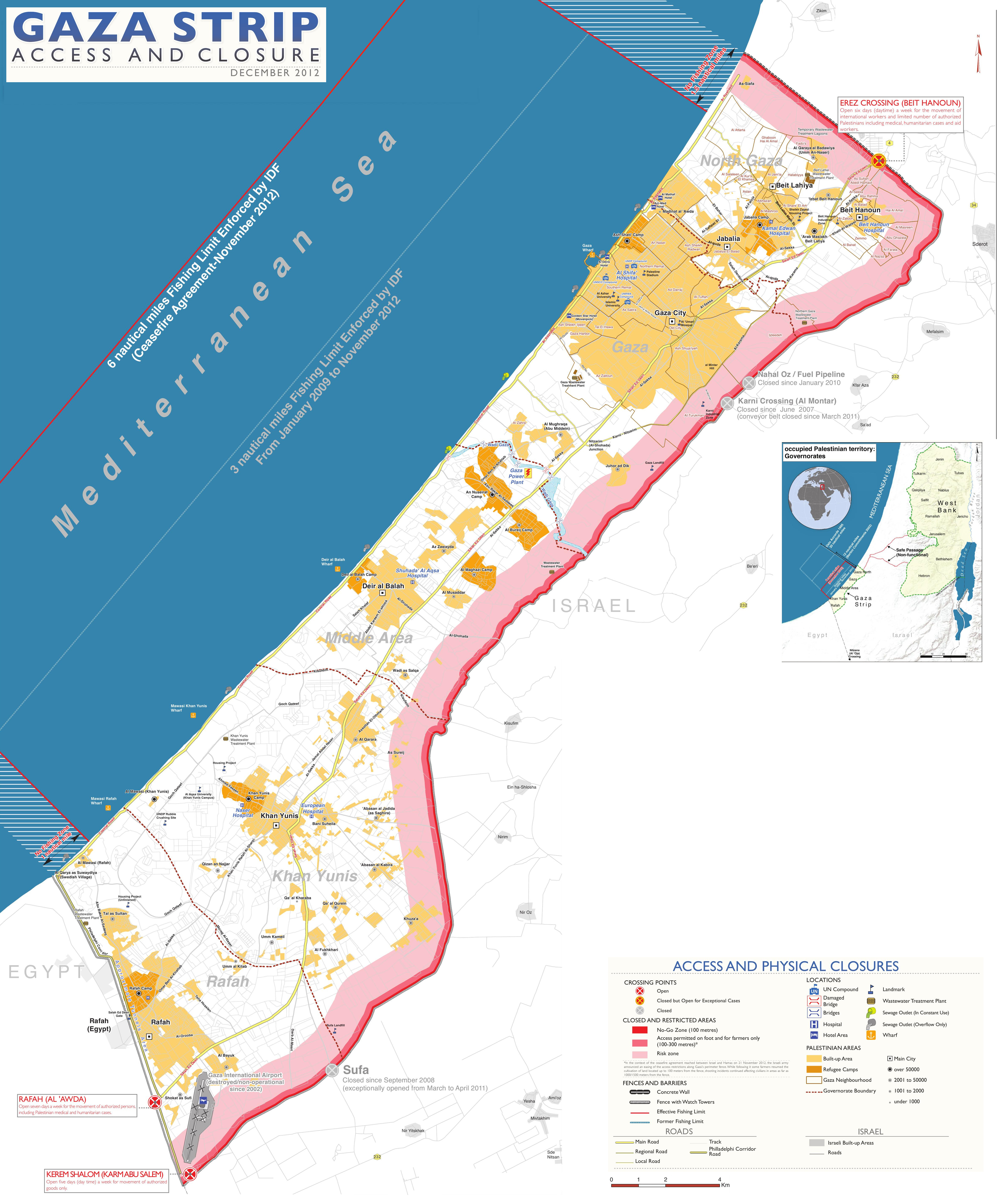 Gaza Strip with Israeli-controlled borders and limited fishing zone, as of December 2012. Based on Closure Map: Gaza Strip Access and Closure, published by United Nations Office for the Coordination of Humanitarian Affairs (OCHAoPt), 22 February 2013